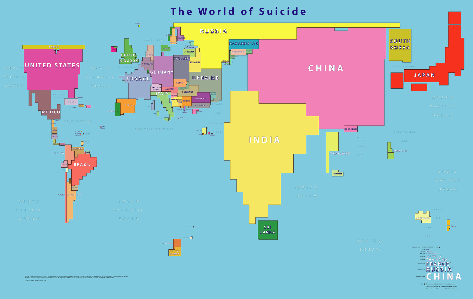 The World of Suicide